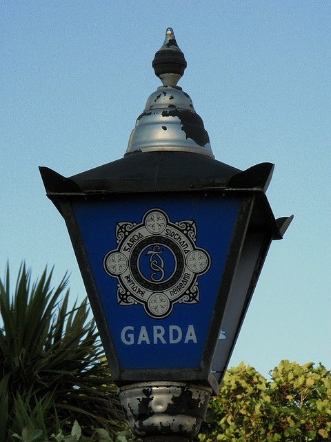 Sign, Dunfanaghy Garda Station. Note - the Google maps here are useless. Please refer to OSI Discovery Series Sheet 2 from which all accurate grid references have been made. Detail of 899453.